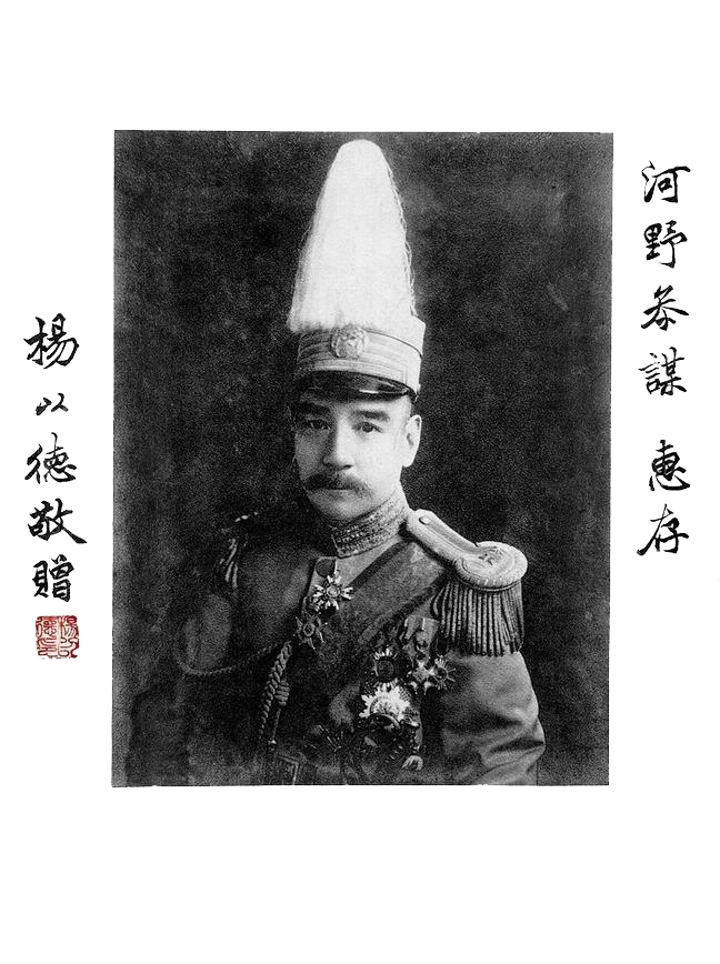 Yang Yide (1873-1944)